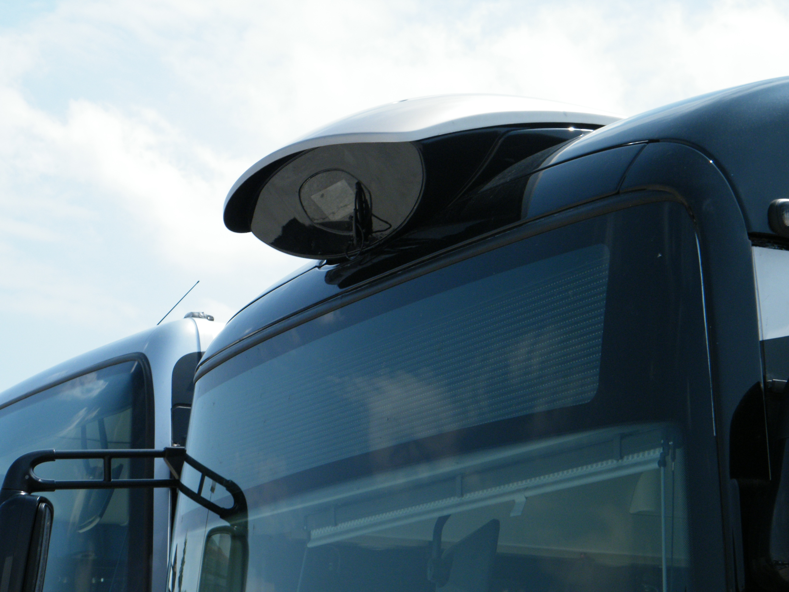 Irisbus Crealis 18 bus in France. Built 2009.